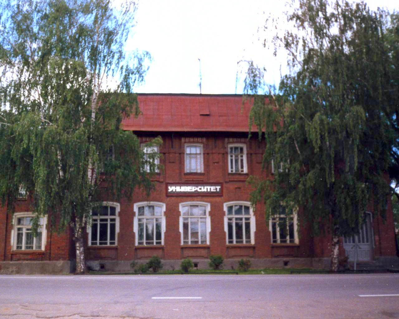 University of Pereslavl-Zalessky, Russia (June 2006)